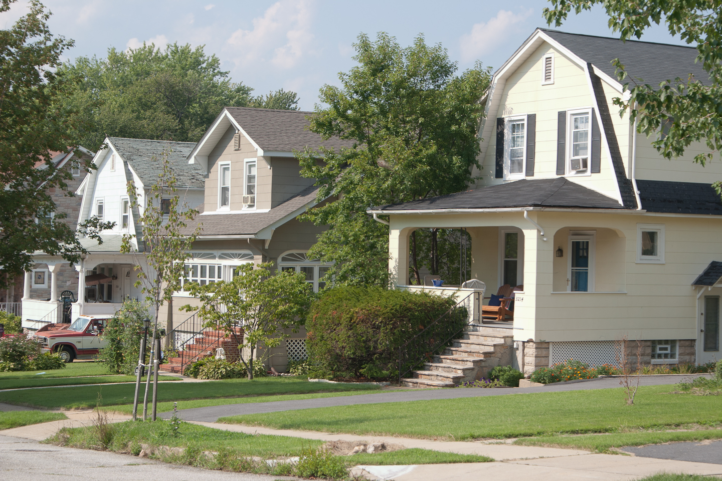 Houses along Weaver Avenue in the Arcadia-BeverlyHills Historic District of Baltimore, Maryland.